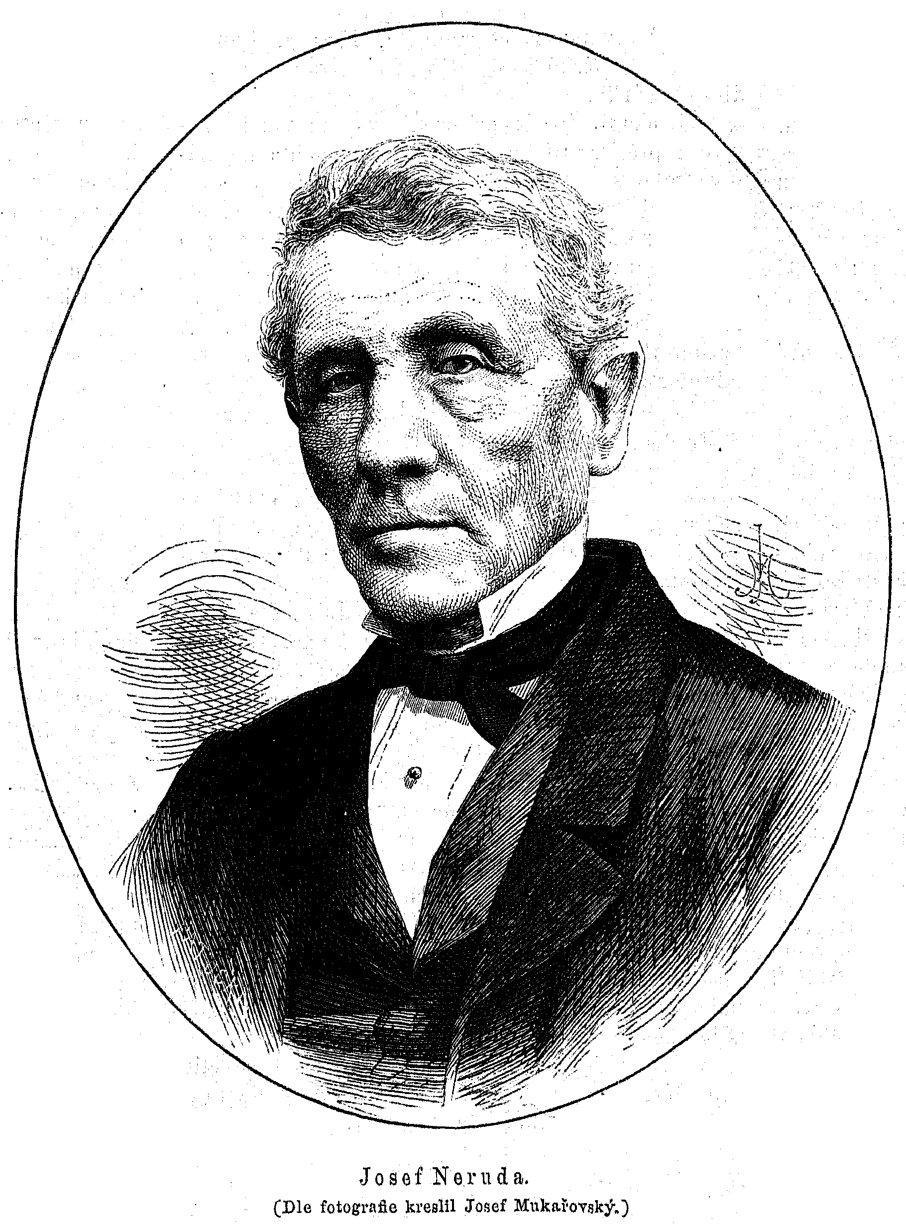 Portrait of Josef Neruda (1807 - 1875), Czech organist and teacher of music.